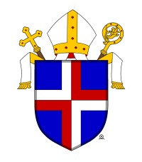 Coat of arms of Litoměřice Diocese, Czech Republic